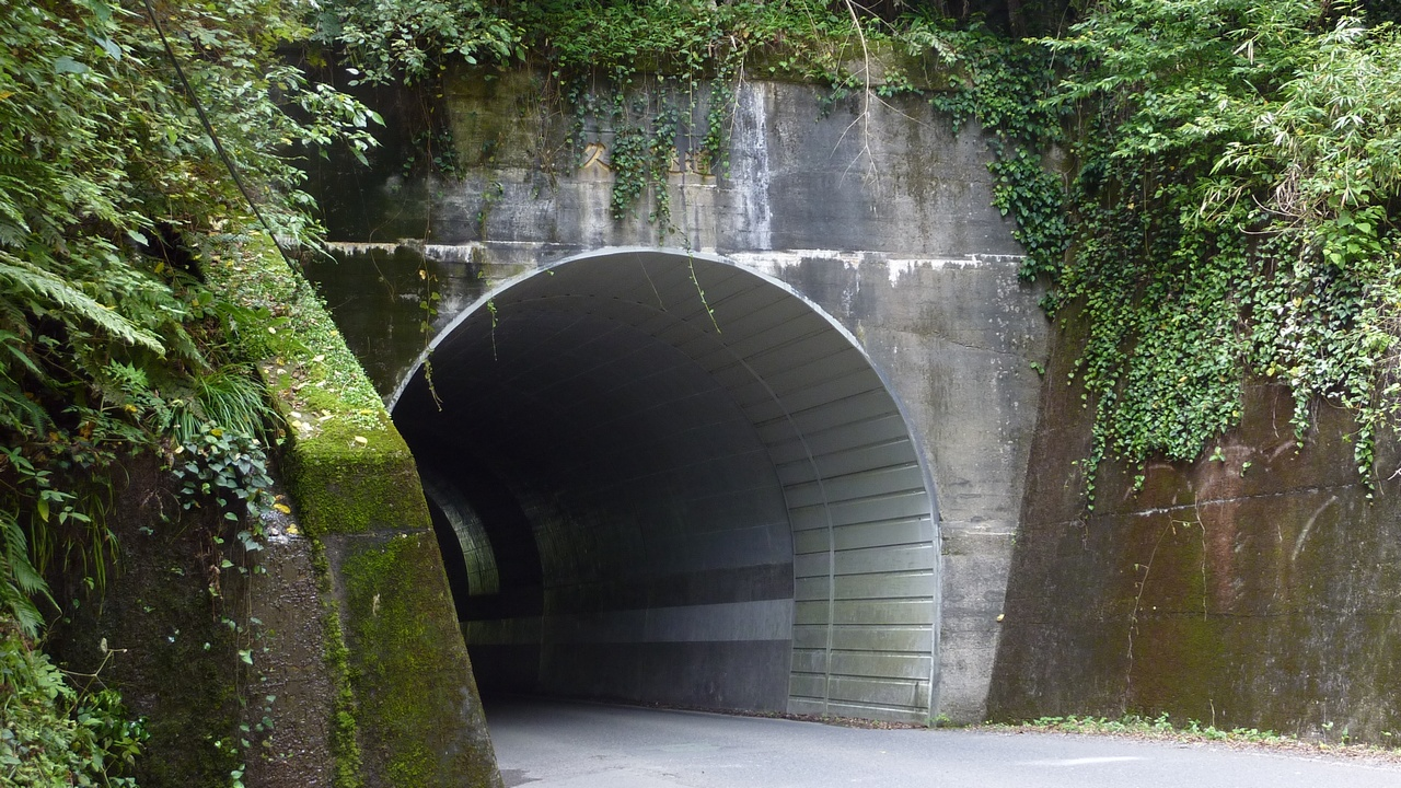 Hisamine Tunnel, it is also known as Kotsu-kotsu Tunnel. (Sadowra, Miyazaki City, Japan)